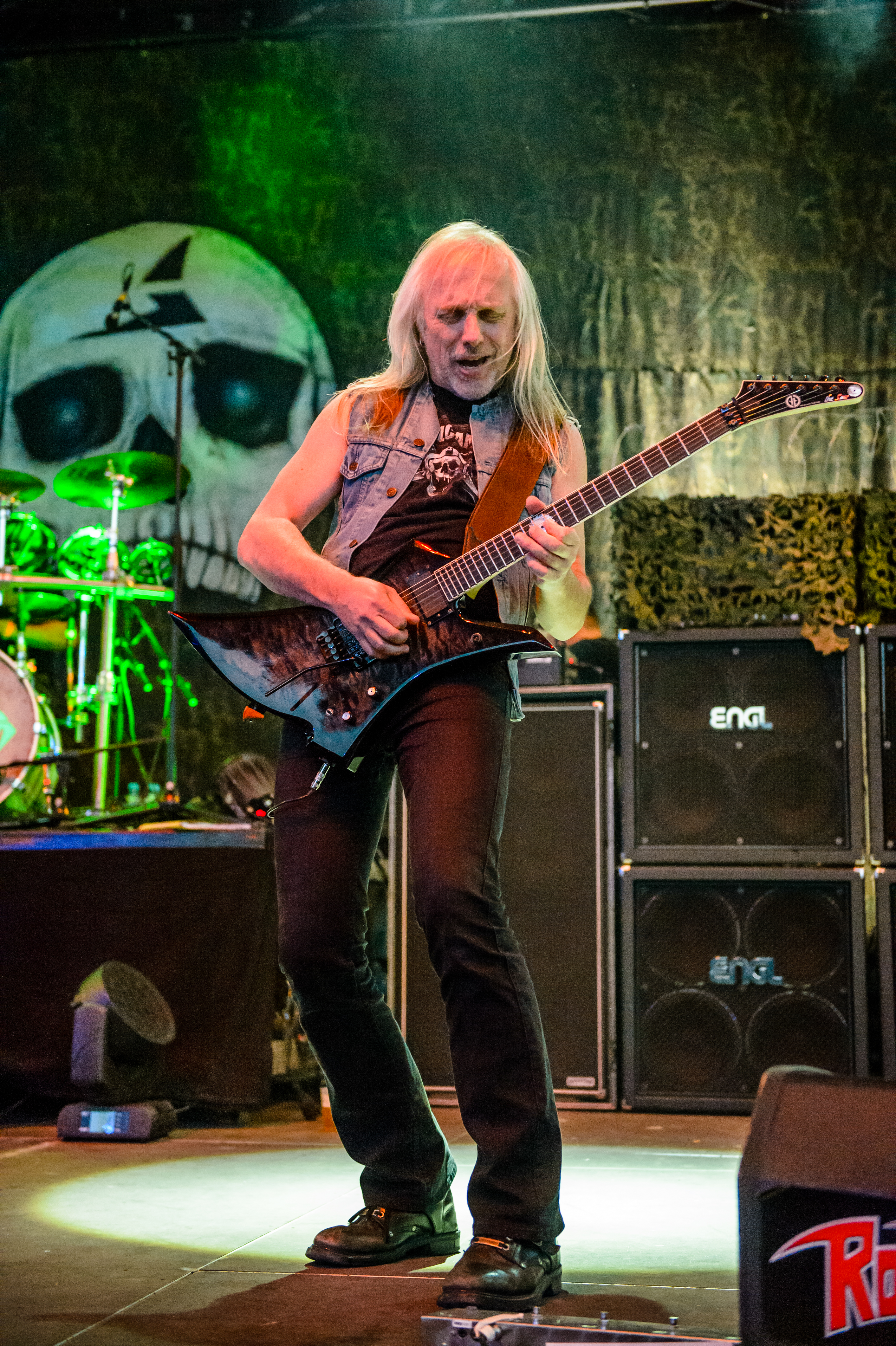 Sodom; RockHard Festival 2016